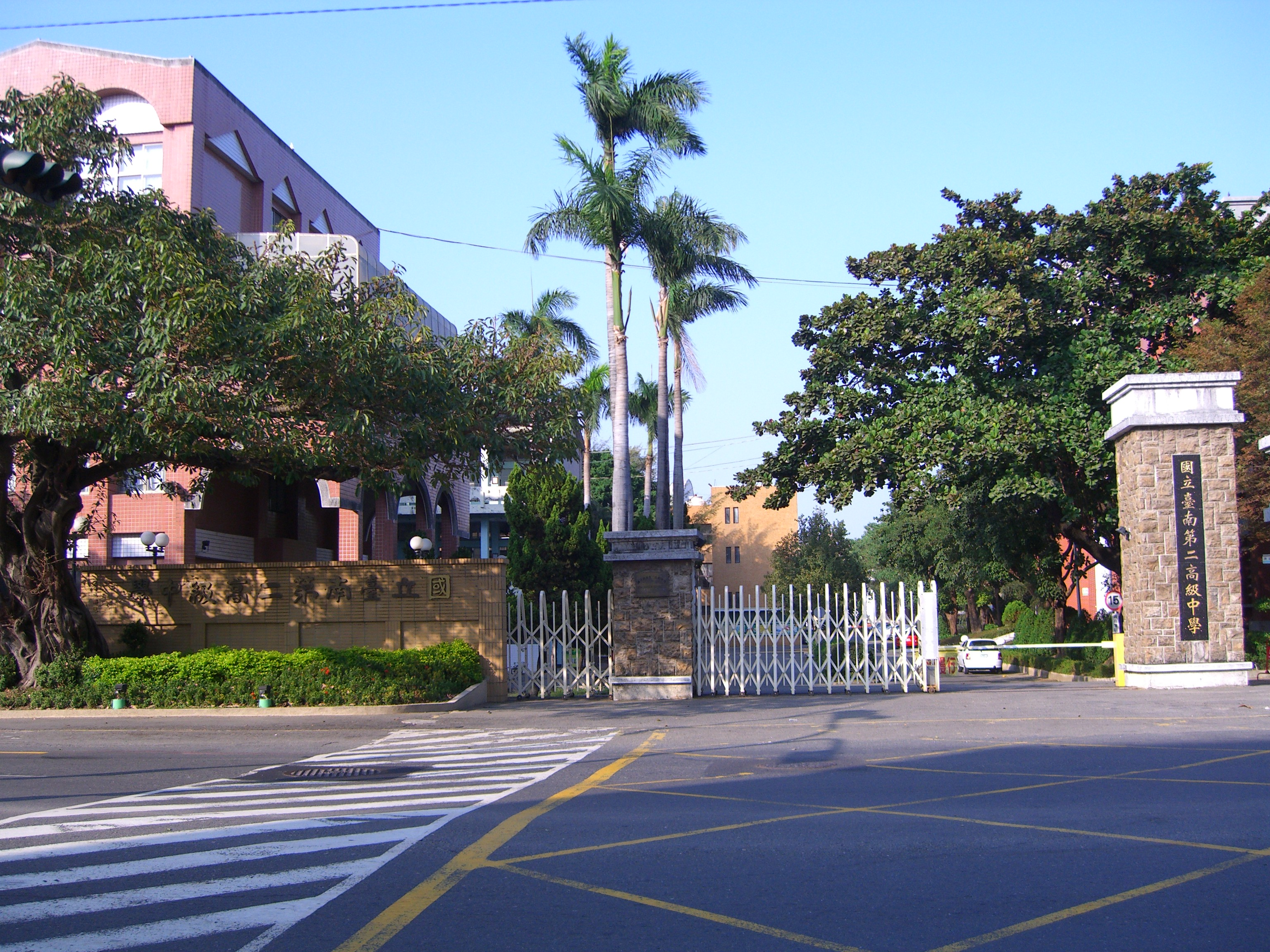 National Tainan Second Senior High School 國立台南二中